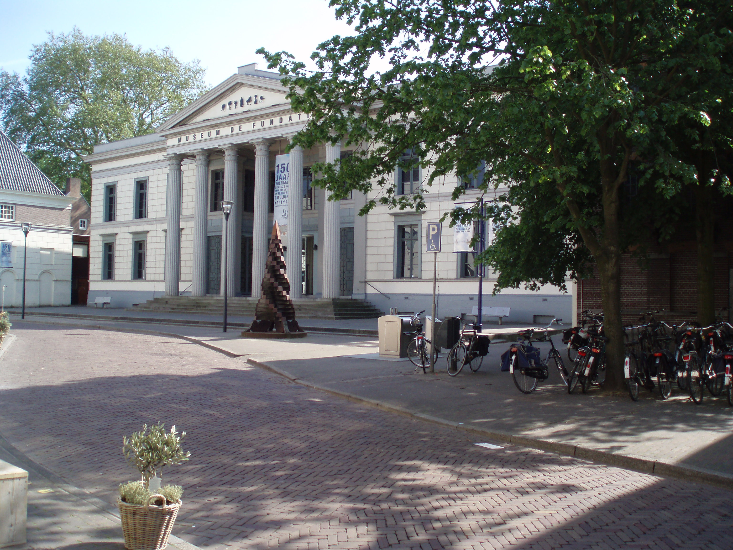 Blijmarket, Zwolle on a sunny day in April. Museum de Fundatie.